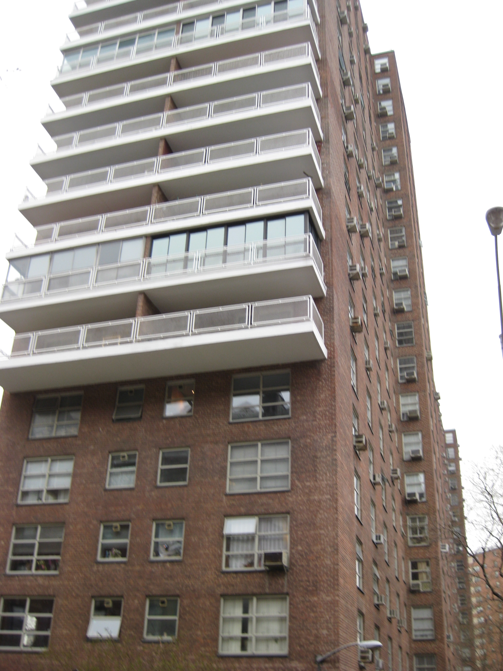 This photo is of Wikipedia Takes Manhattan location code 10, Morningside Gardens.